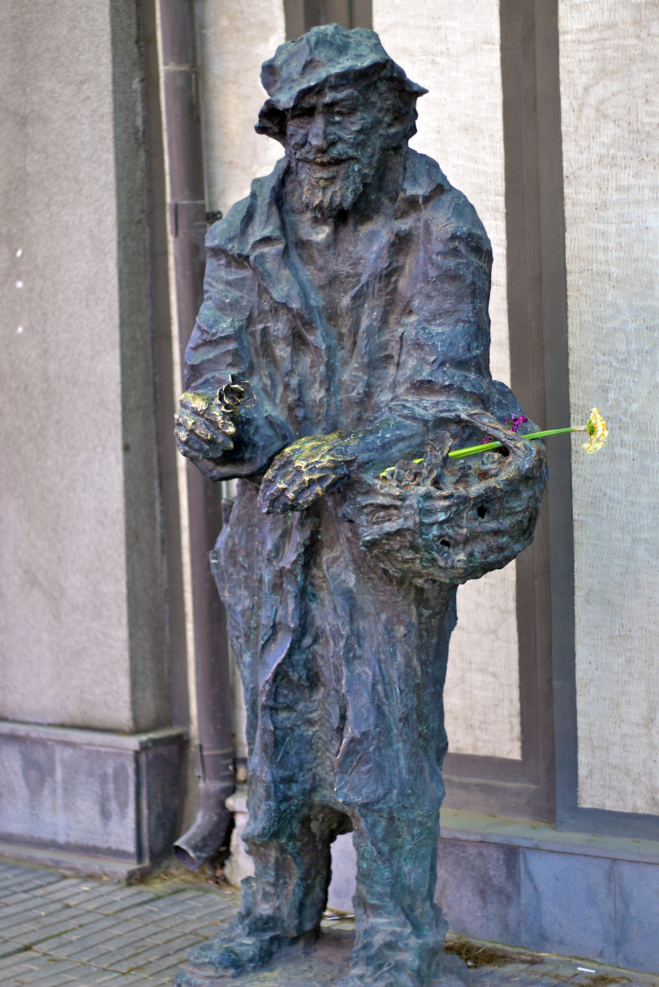 Statue of Karabala (a flower-selling old man) located in the Teryan Street at Yerevan. Sculpture by Levon Tokmajyan.